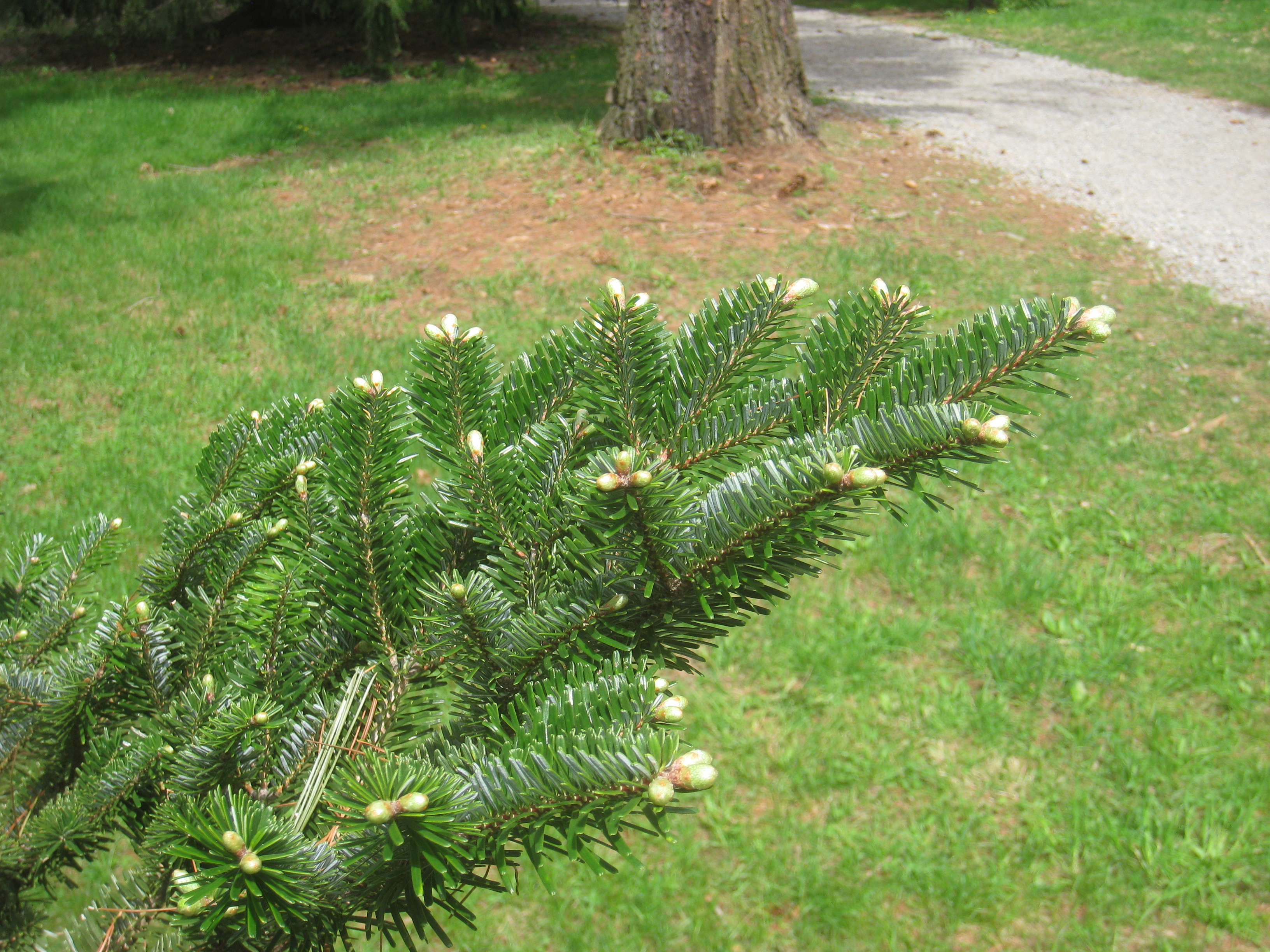 Abies fargesii var. fargesii, Arnold Arboretum, Jamaica Plain, Boston, Massachusetts, USA.